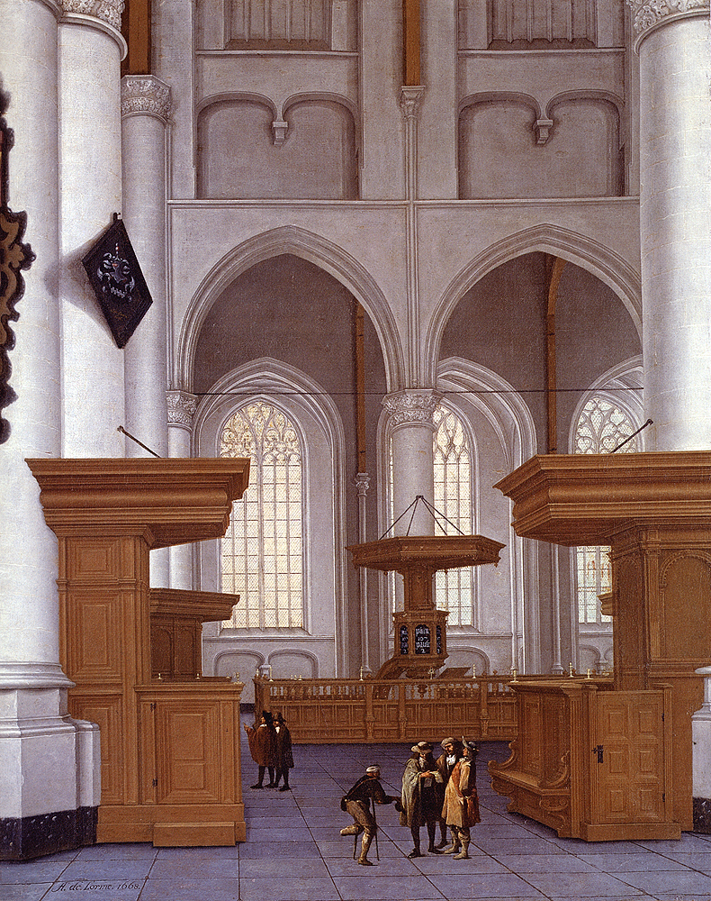 Interior Of The Laurenskerk, Rotterdam, View To The South